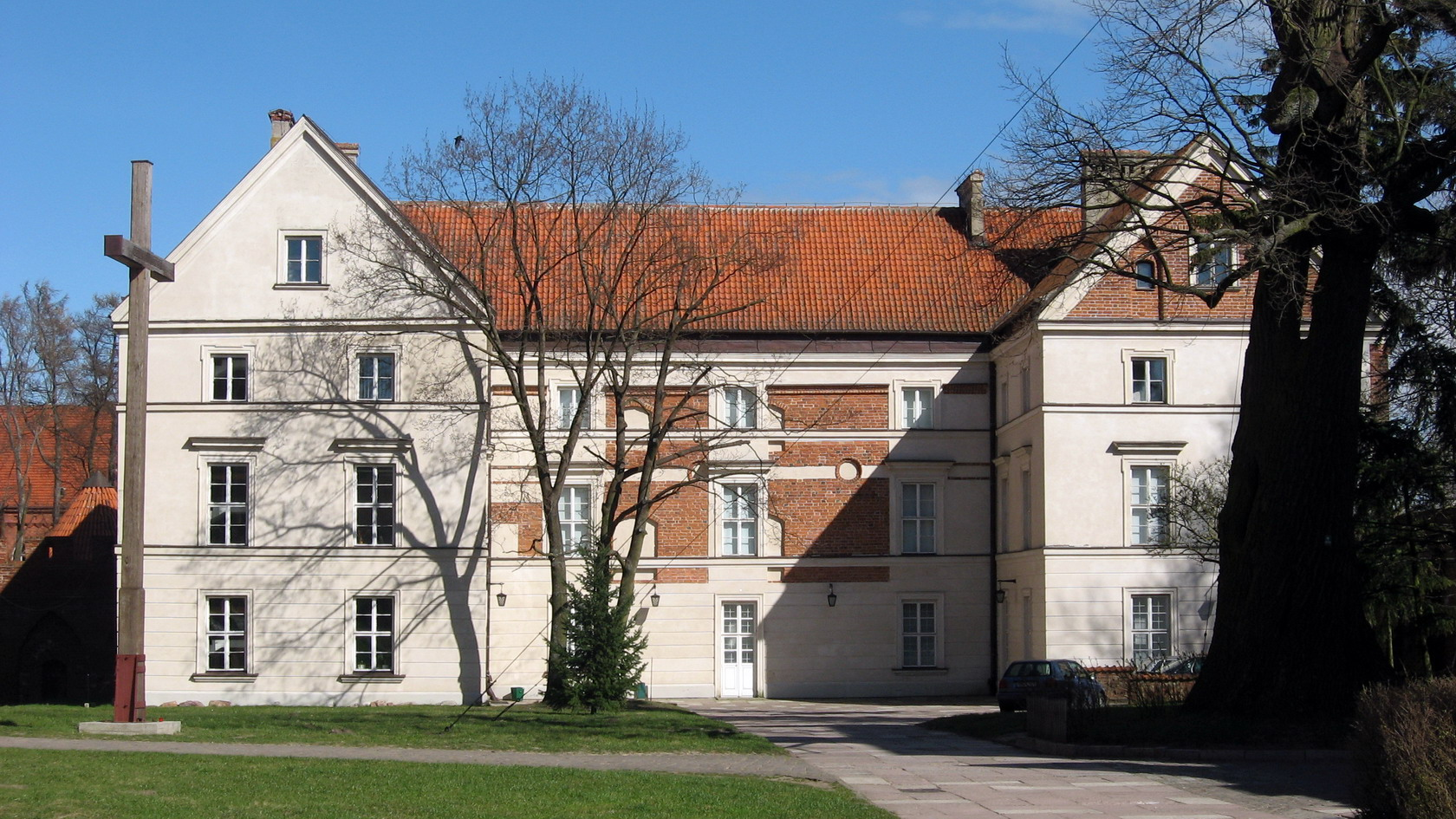 Old Episcopal Palace in Frombork, Poland